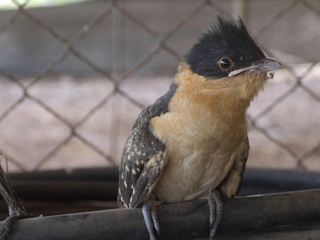 Clamator glandarius, Great Spotted Cuckoo